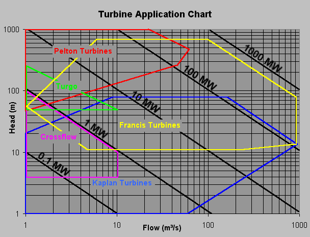 Water turbine application chart I created this chart and release it under the GNU licence. Pud 08:19, 28 Jun 2004 (UTC) I created this revised chart and release it under the GNU licence. Pud 22:48, 11 Jul 2004 (UTC) Tonigonenstein 22:56, 5 February 2007 (UTC)